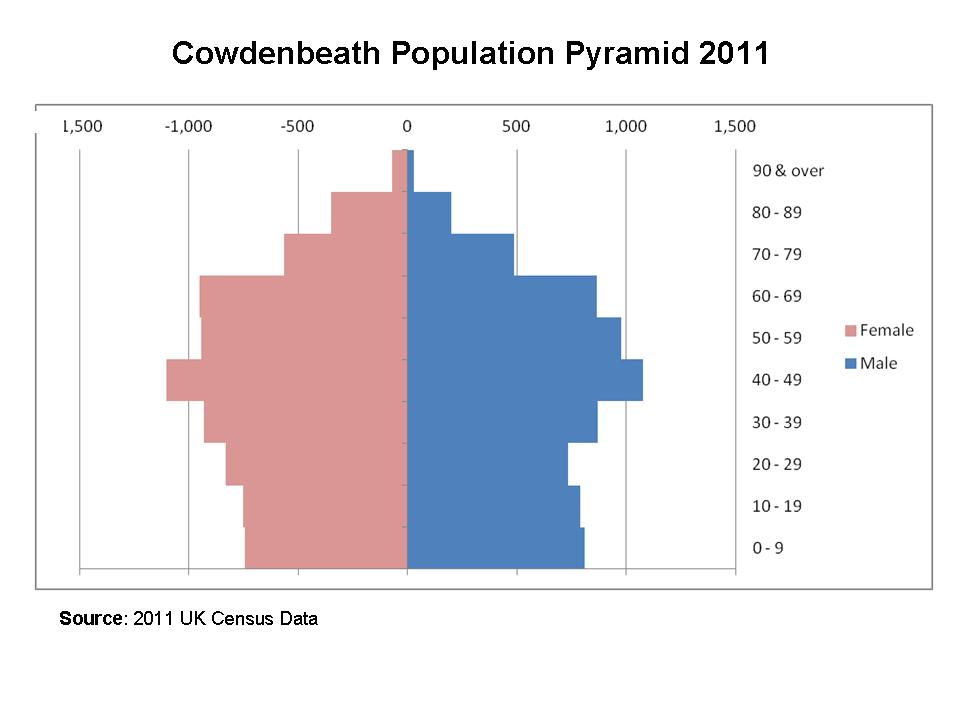 Cowdenbeath population pyramid 2011 deived from UK Census Data 2011